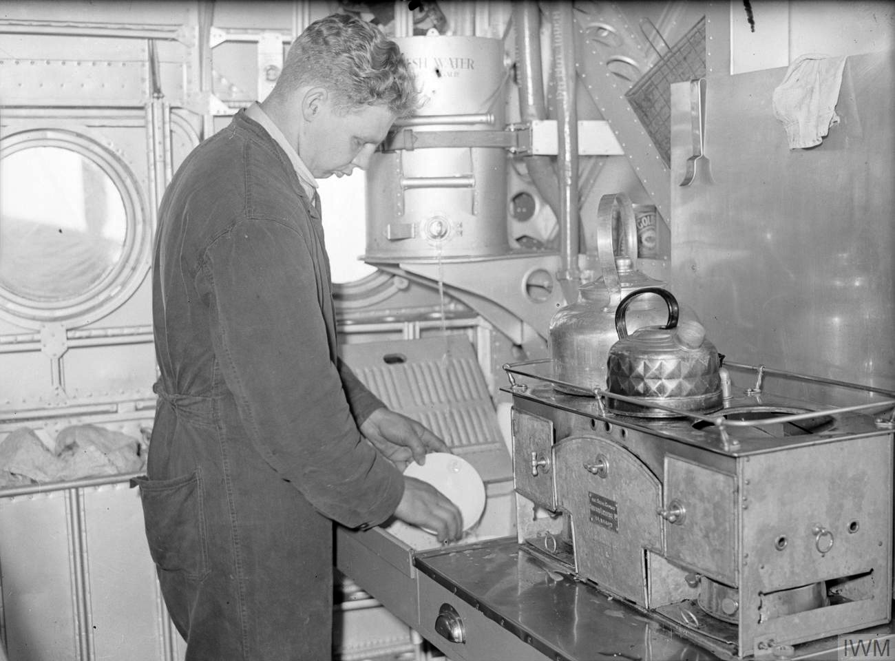 Royal Air Force Coastal Command, 1939-1945. A crew member of a Short Sunderland Mark I of No. 10 Squadron RAAF, washing up in the galley during a flight.